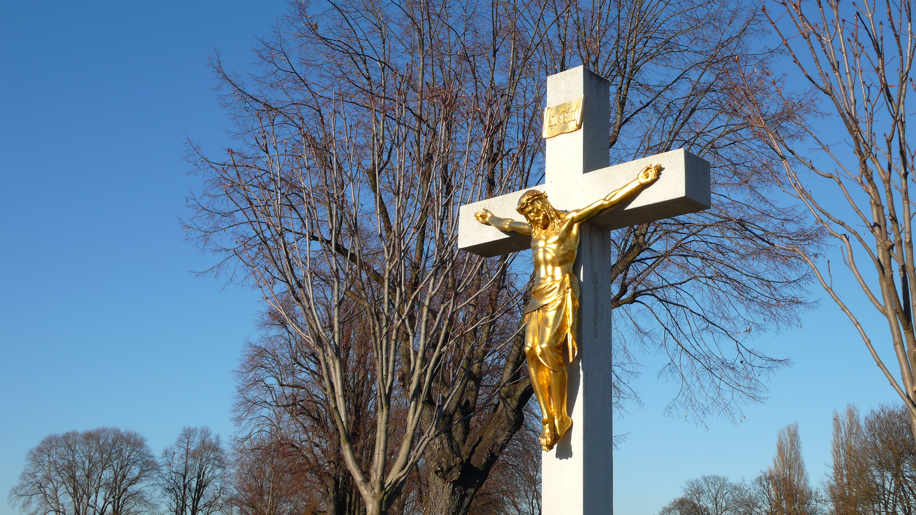 Jedleseer Friedhof in Vienna Floridsdorf